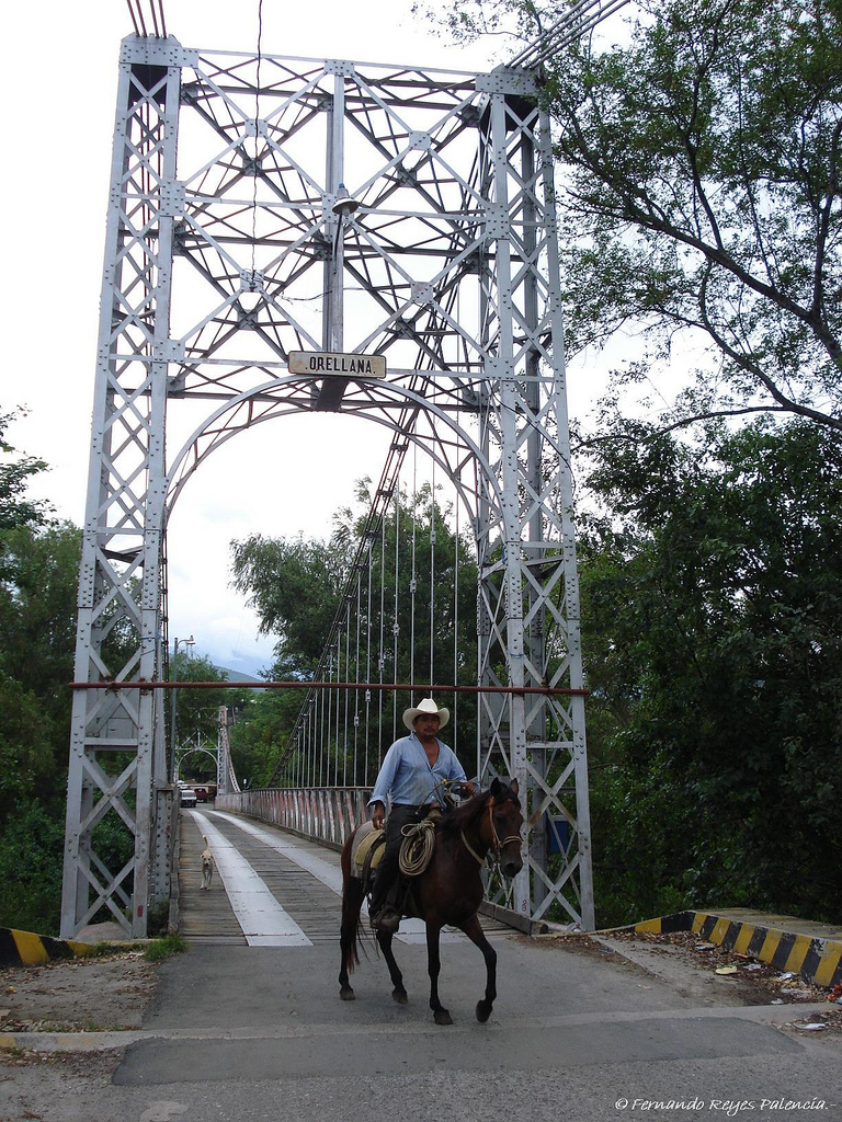 Orellana bridge in El Rancho, San Agustín Acasaguastlán, El Progreso, Guatemala.